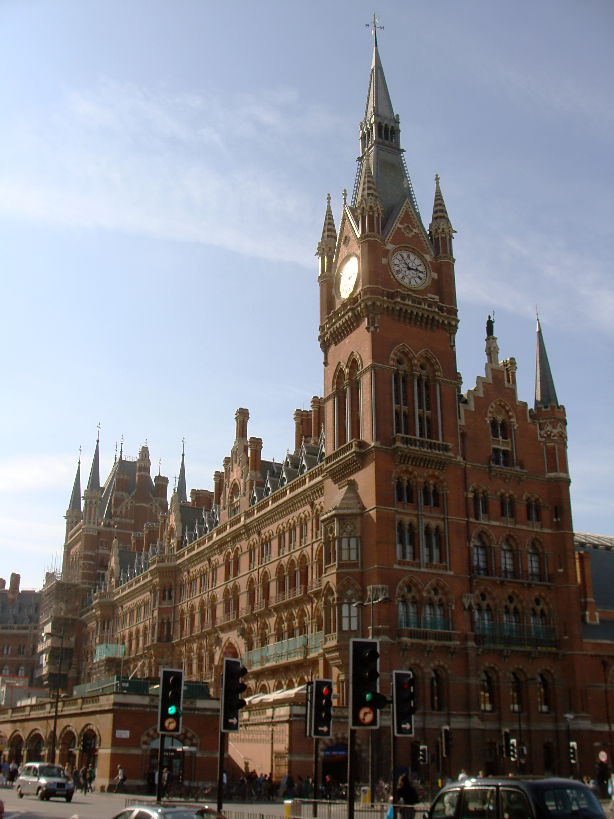 Midland Hotel, St Pancras, London